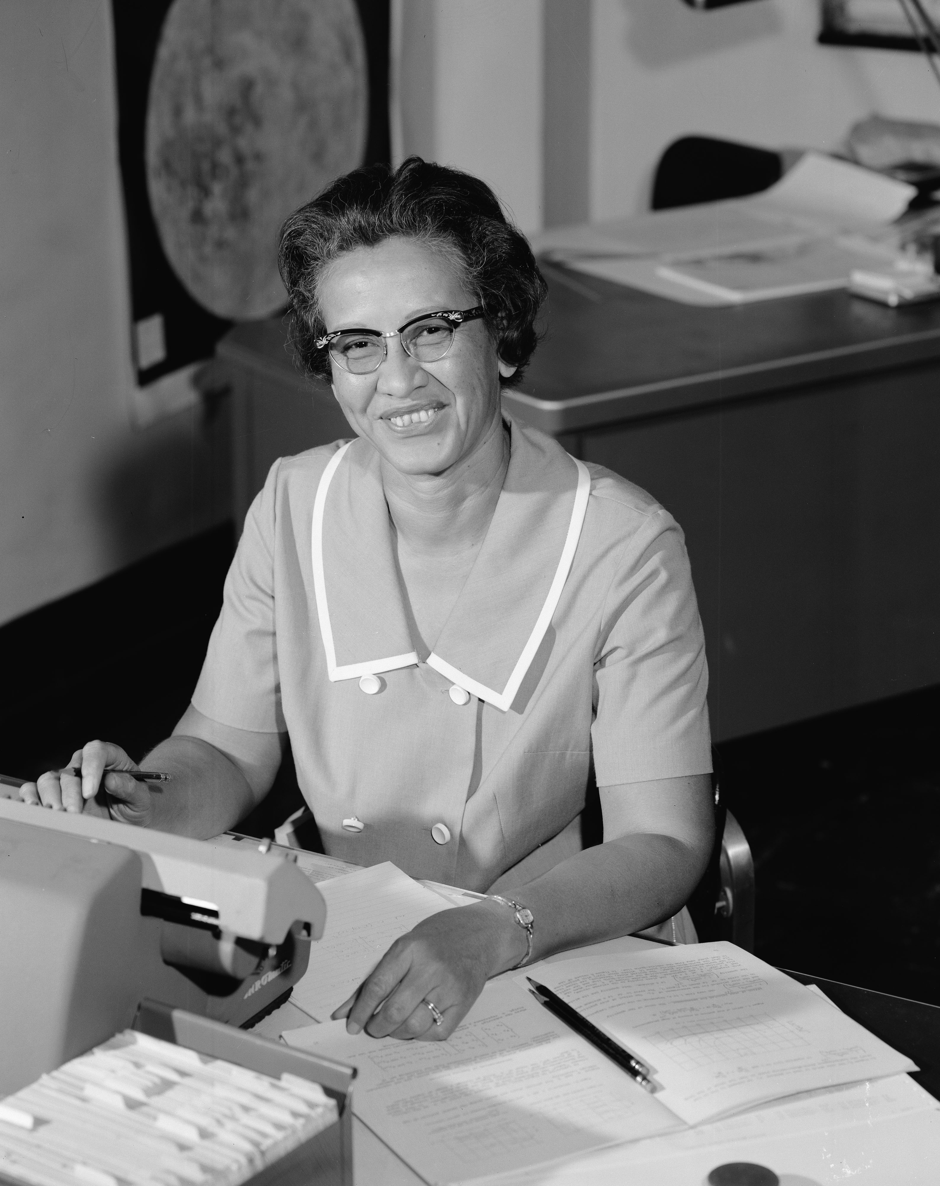 Katherine Johnson, NASA employée, mathematician and physicist, in 1966